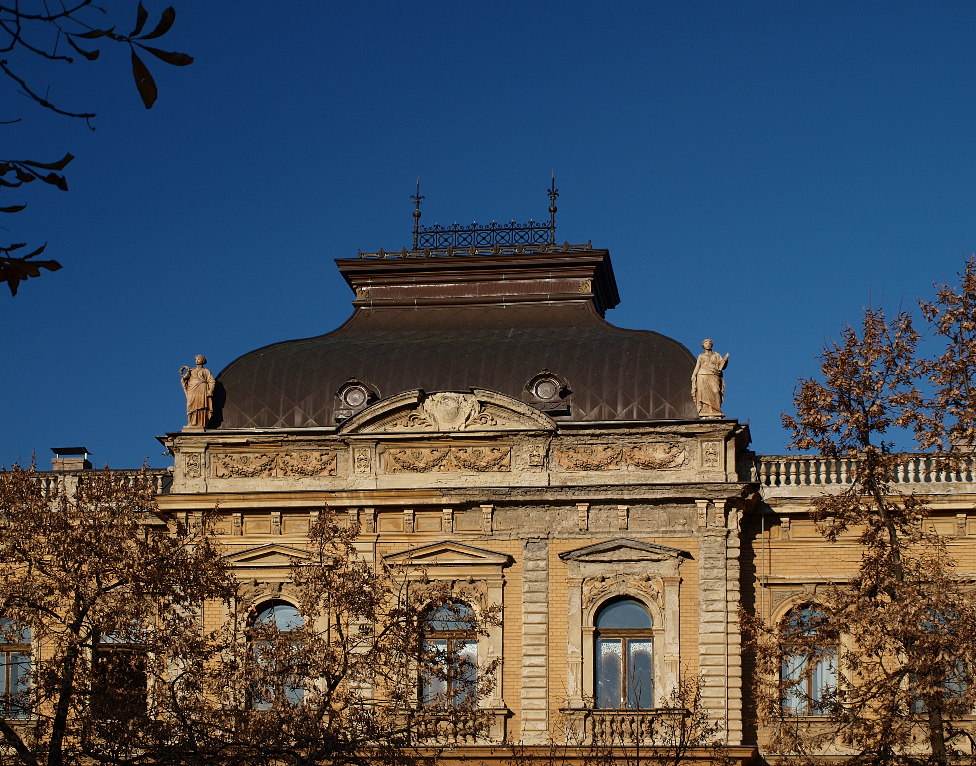 Seminary "Sveti Arsenije Sremac" in Sremski Karlovci, Serbia.